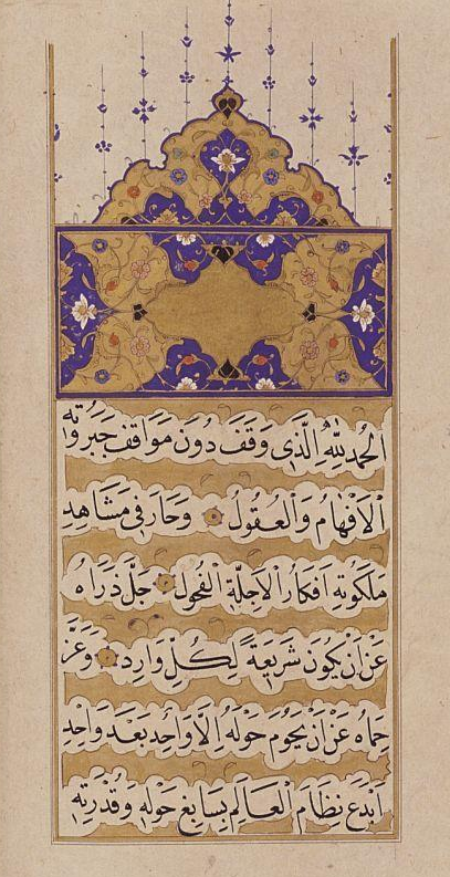 Endowment Charter (Waqfiyya) of Haseki Hürrem Sultan: Haseki Hürrem Sultan Mosque, Madrasa and Imaret (soup-kitchen) in Jerusalem. Page 1b (Detail) is together with the arabic word huwa at the very first page of the Waqfiyya the "invocatio".